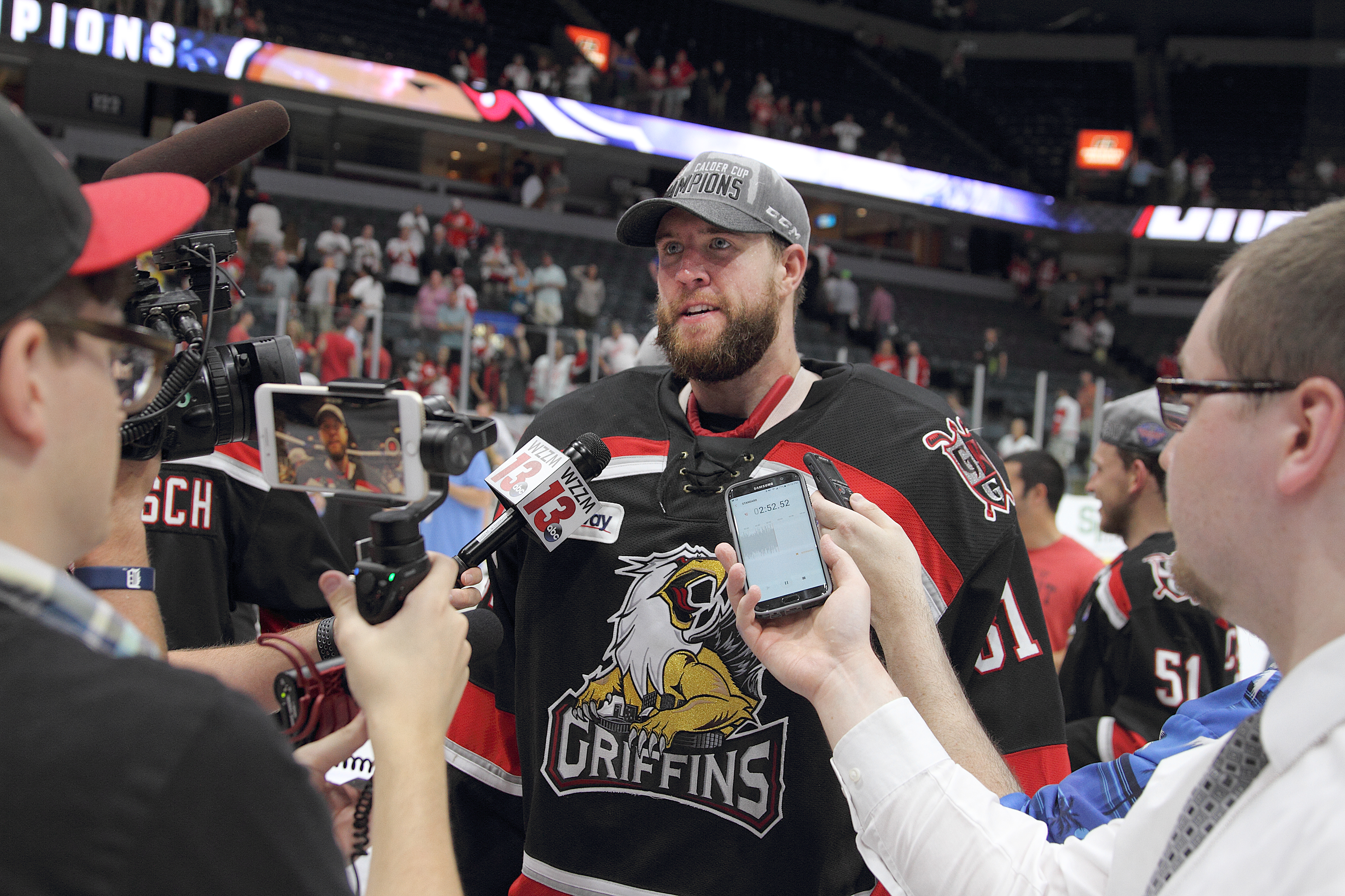 Photo: Mark Newman